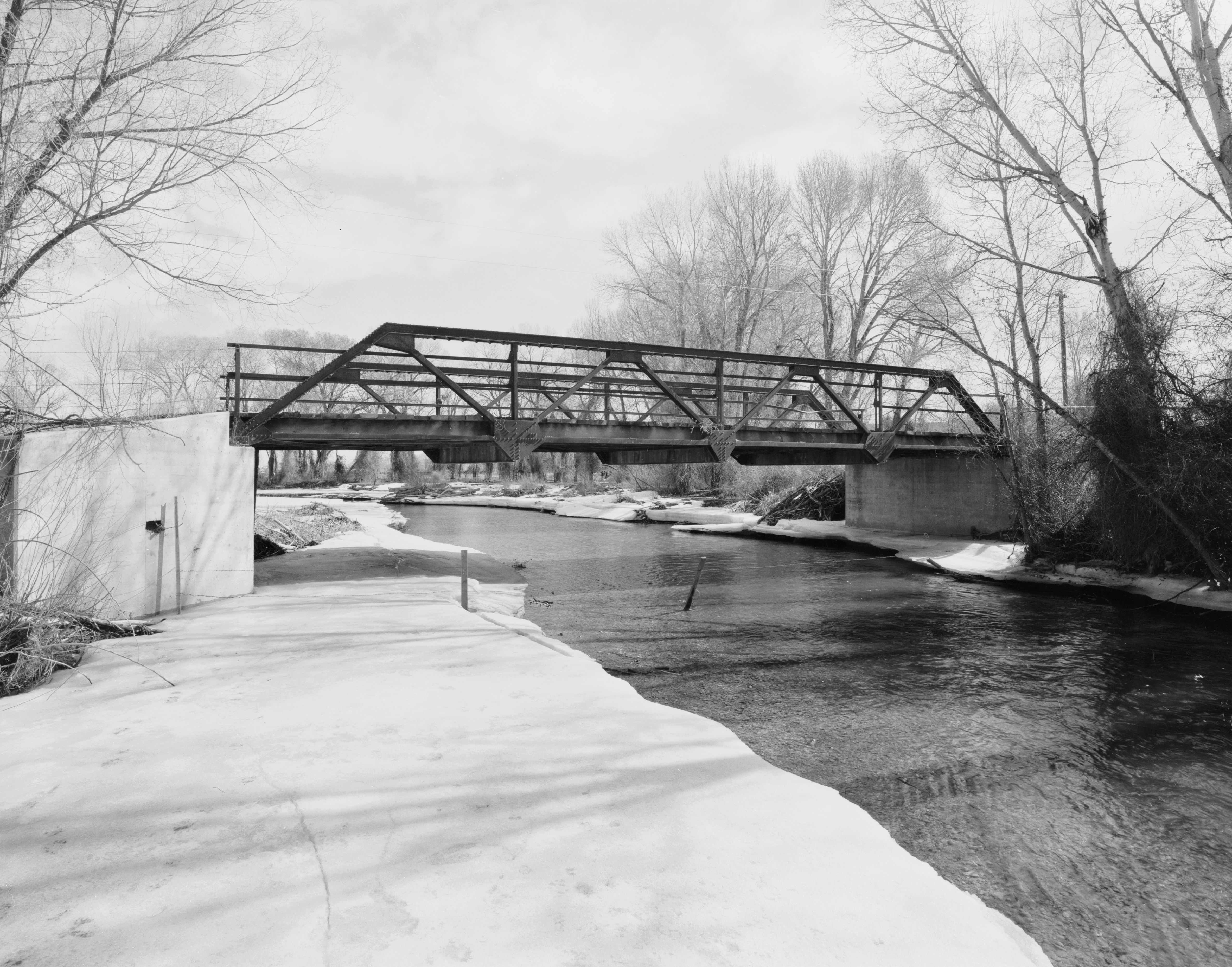 Eastern side of the EJE Bridge over Shell Creek, which carries County Road CN9-57 over Shell Creek near Shell in Big Horn County, Wyoming, United States. Built in 1920, this Warren pony truss bridge is listed on the National Register of Historic Places.